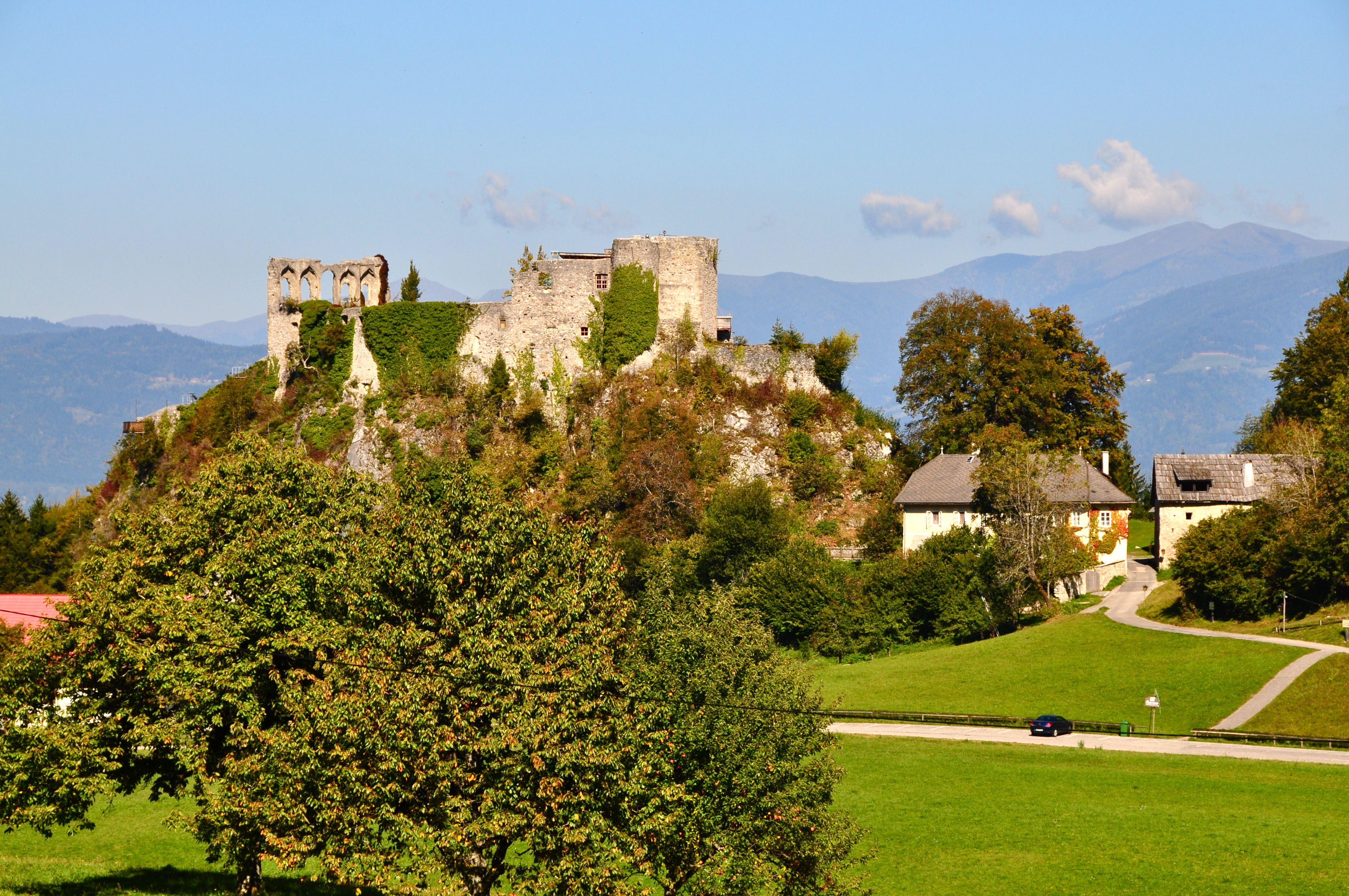 Castle ruin in Altfinkenstein #14, market town Finkenstein am Faaker See, district Villach Land, Carinthia, Austria, EU